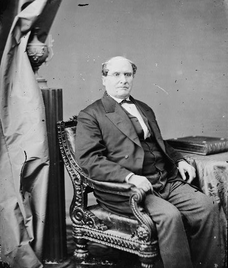 William Craig Fields (1804 - 1882), U.S. Representative from New York